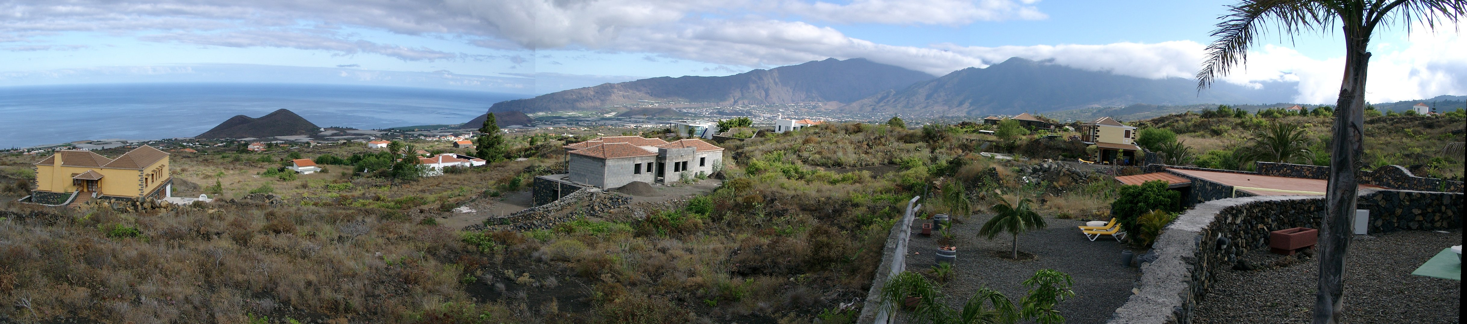 Westcoast of La Palma - taken from Todoque